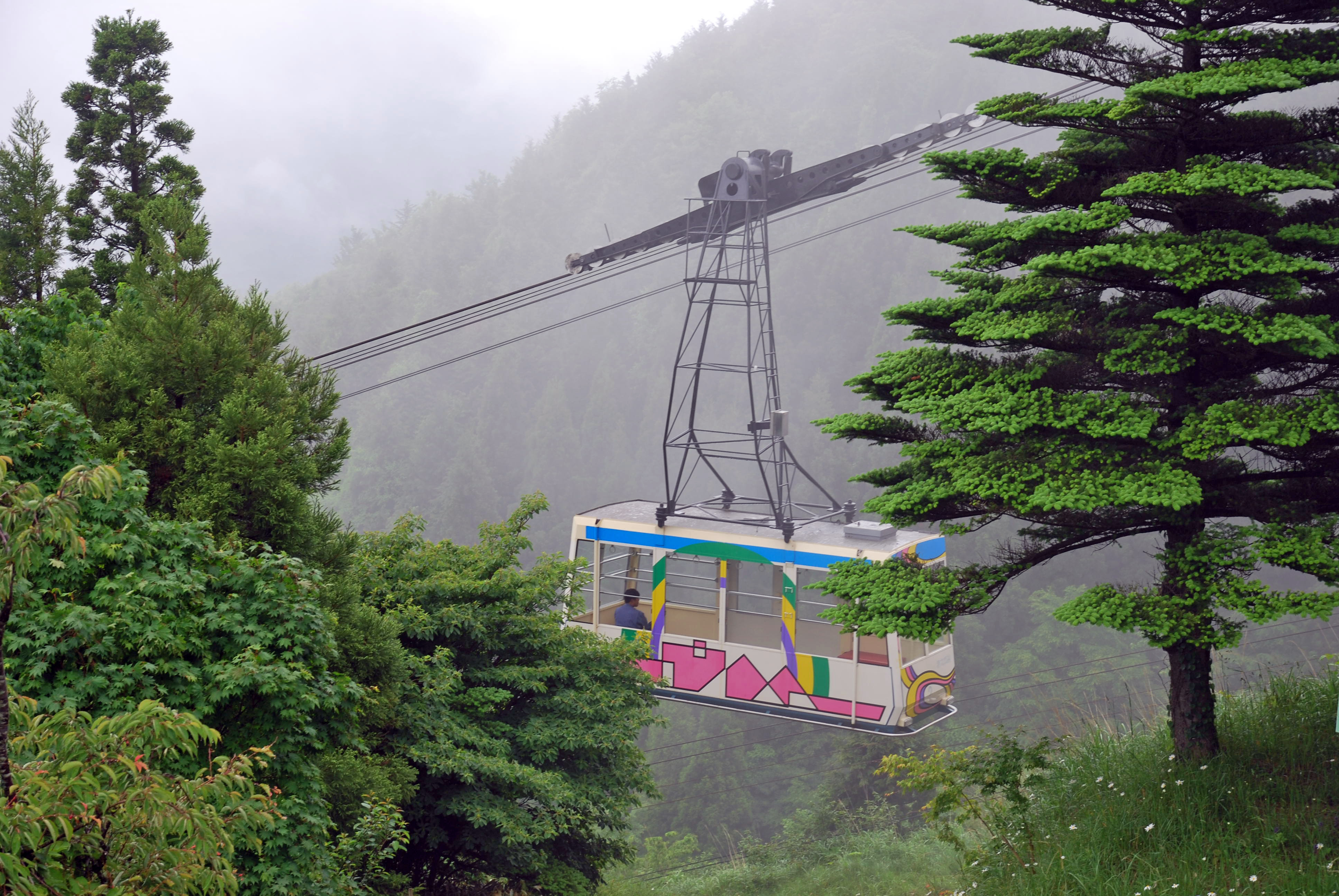 Ishizuchitozan Ropeway